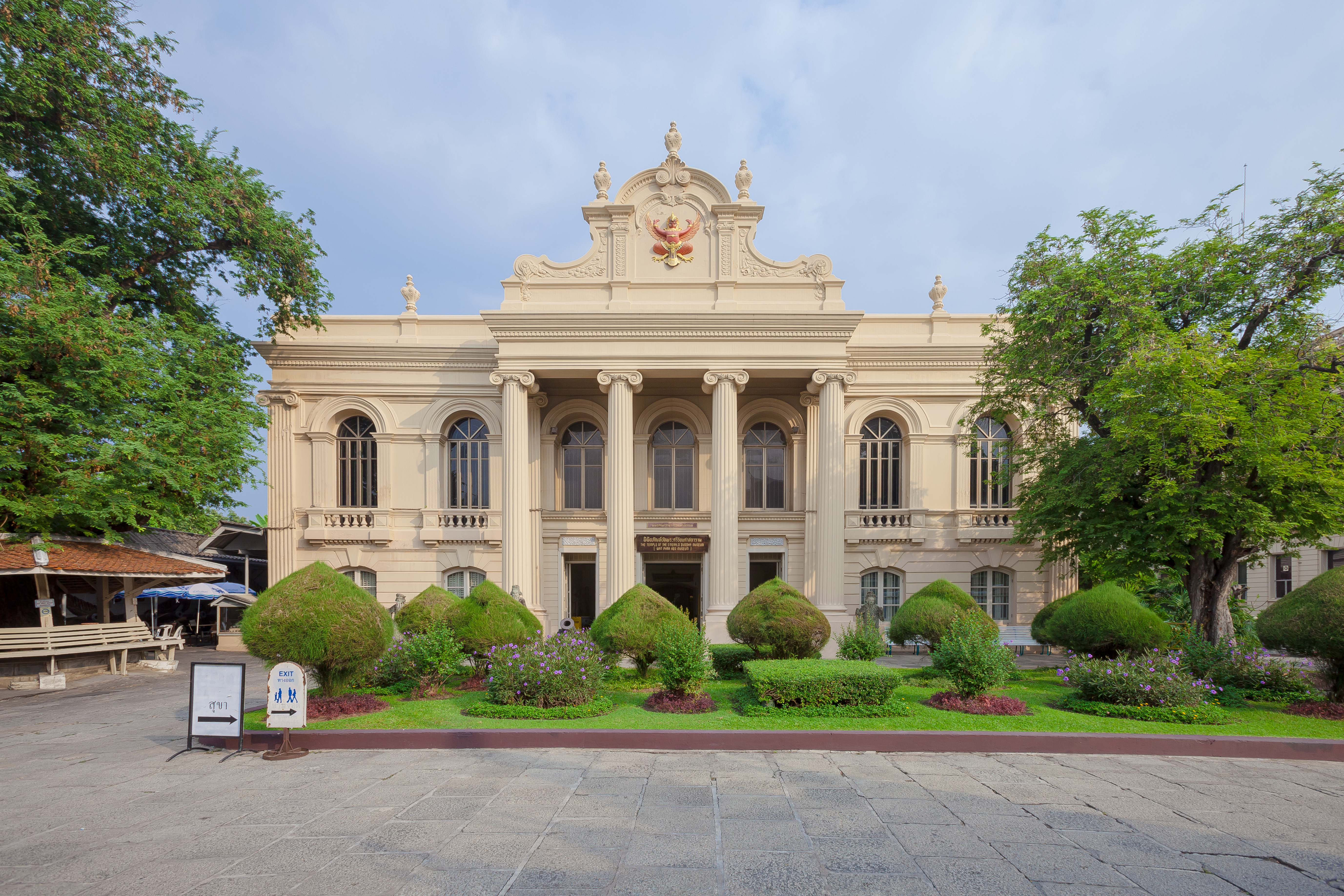 Wat Phra Kaew Museum at Wat Phra Kaew, Bangkok.